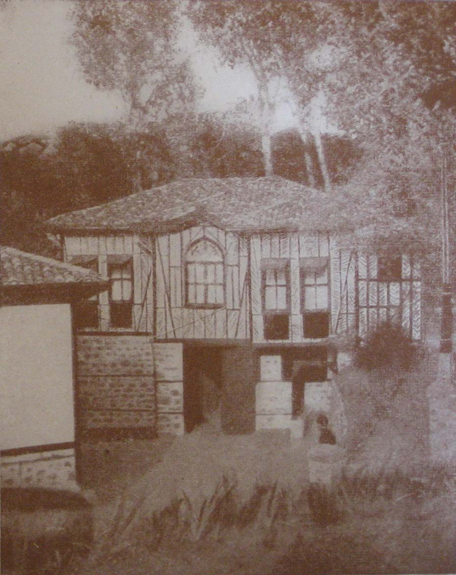 The summer dwelling that became Çankaya Palace.